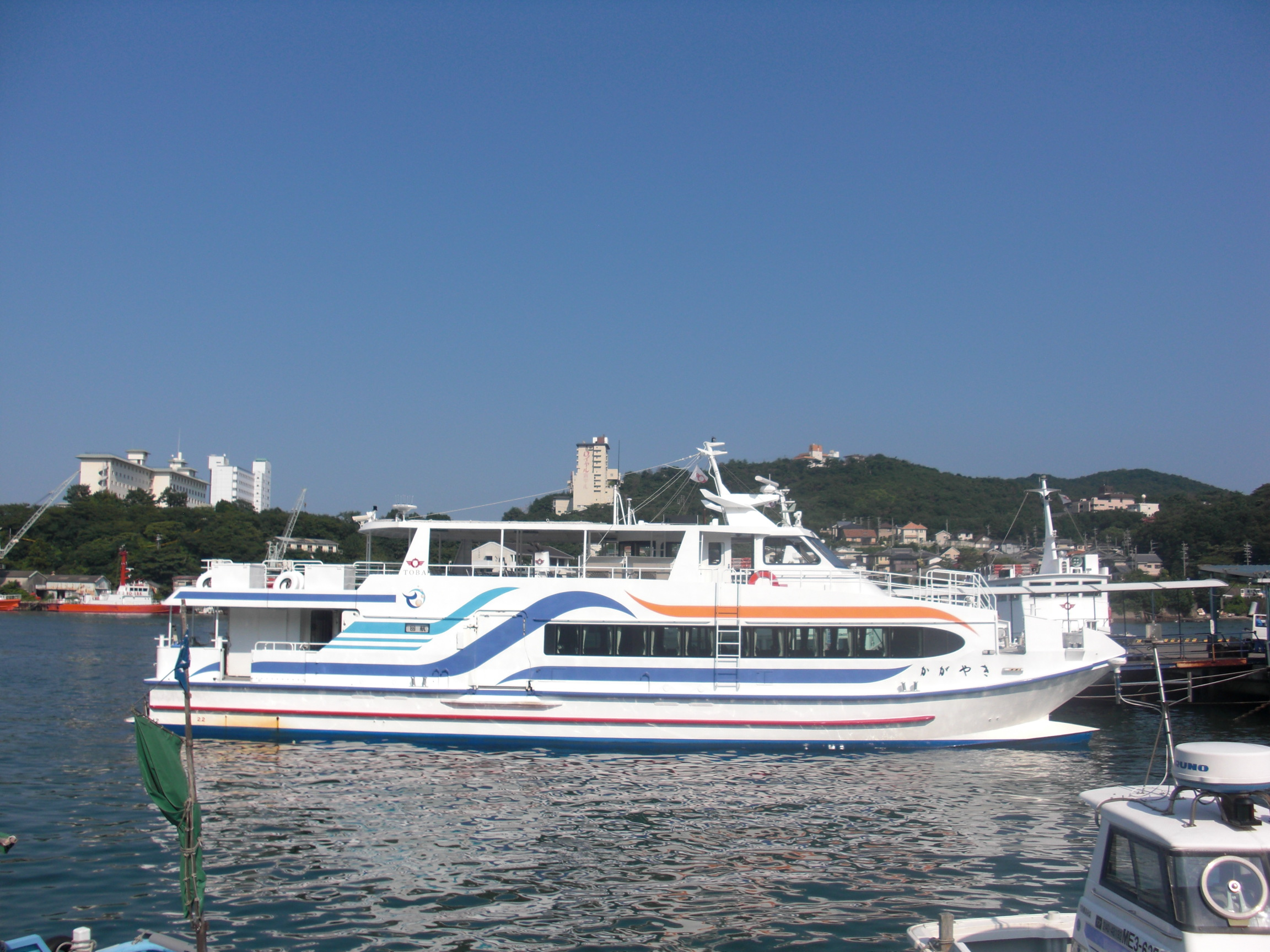 This is a new ship KAGAYAKI, which is used for Toshi, Momotori and Sakate line of Toba-shiei-teikisen.